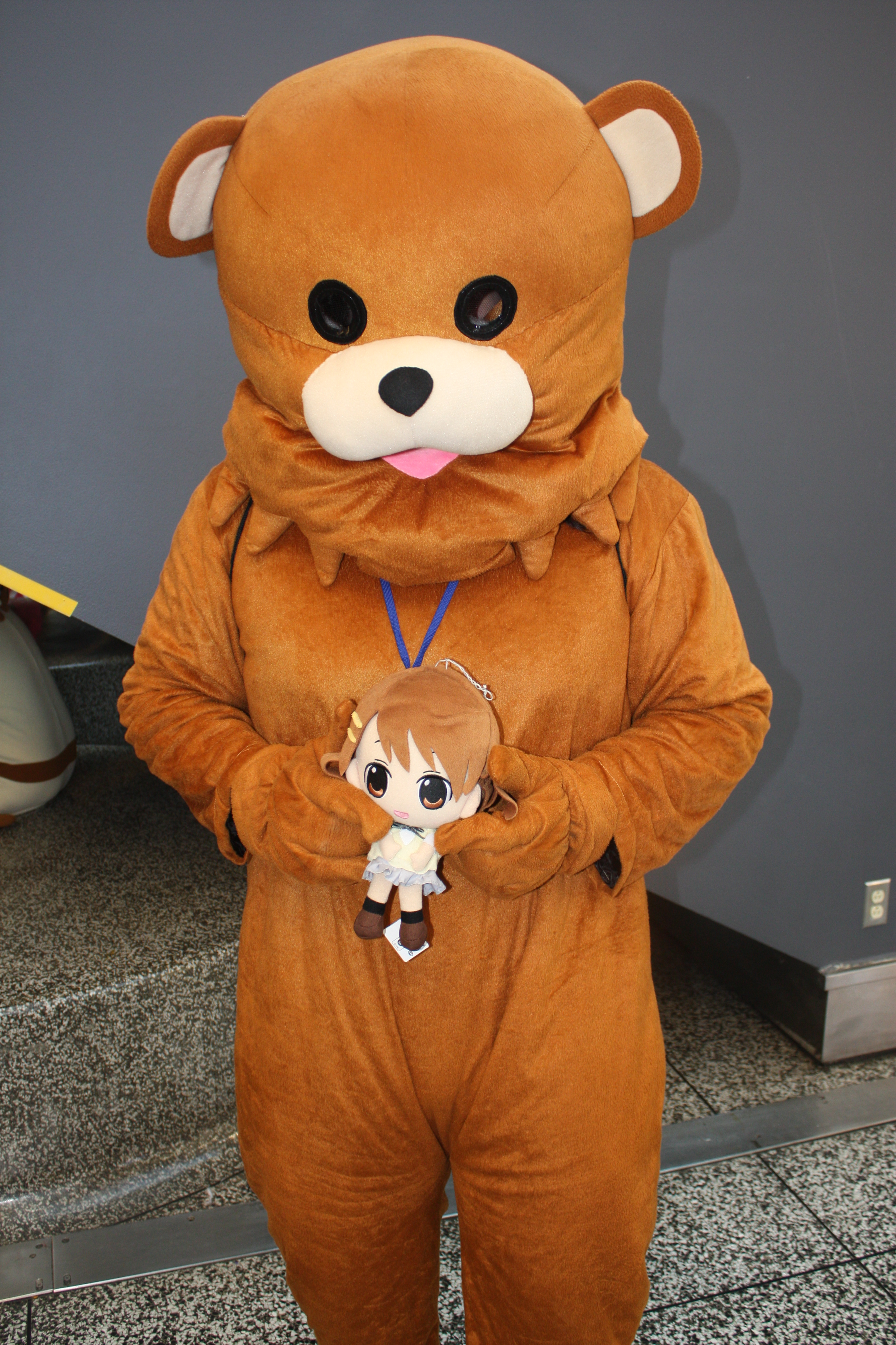 ....turns out I already asked for this pose last year.